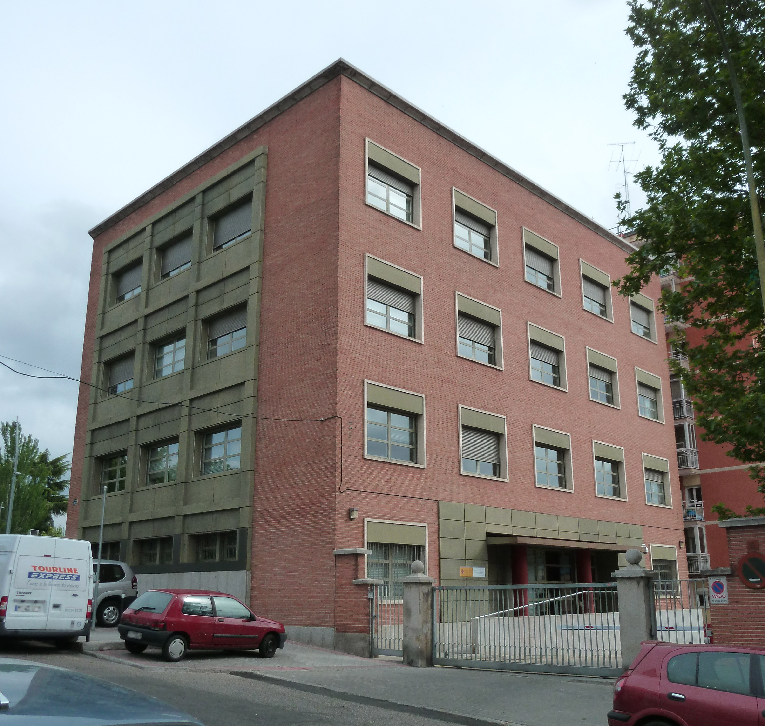 Headquarters of the Spanish Civil Aviation Accident and Incident Investigation Commission (CIAIAC), at 6 Calle de Fruela (street) in Latina district in Madrid.